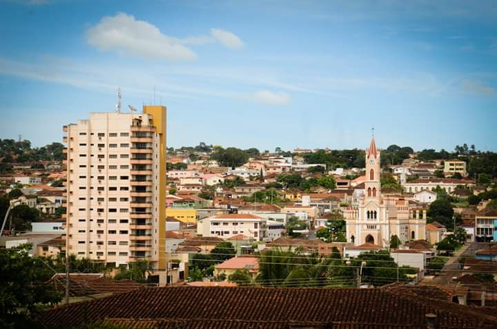 Igarapava - Vista central da cidade